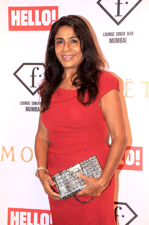 Rashmi Uday Singh graces the Moet N Chandon bash at F bar